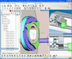 SprutCAM product screenshot